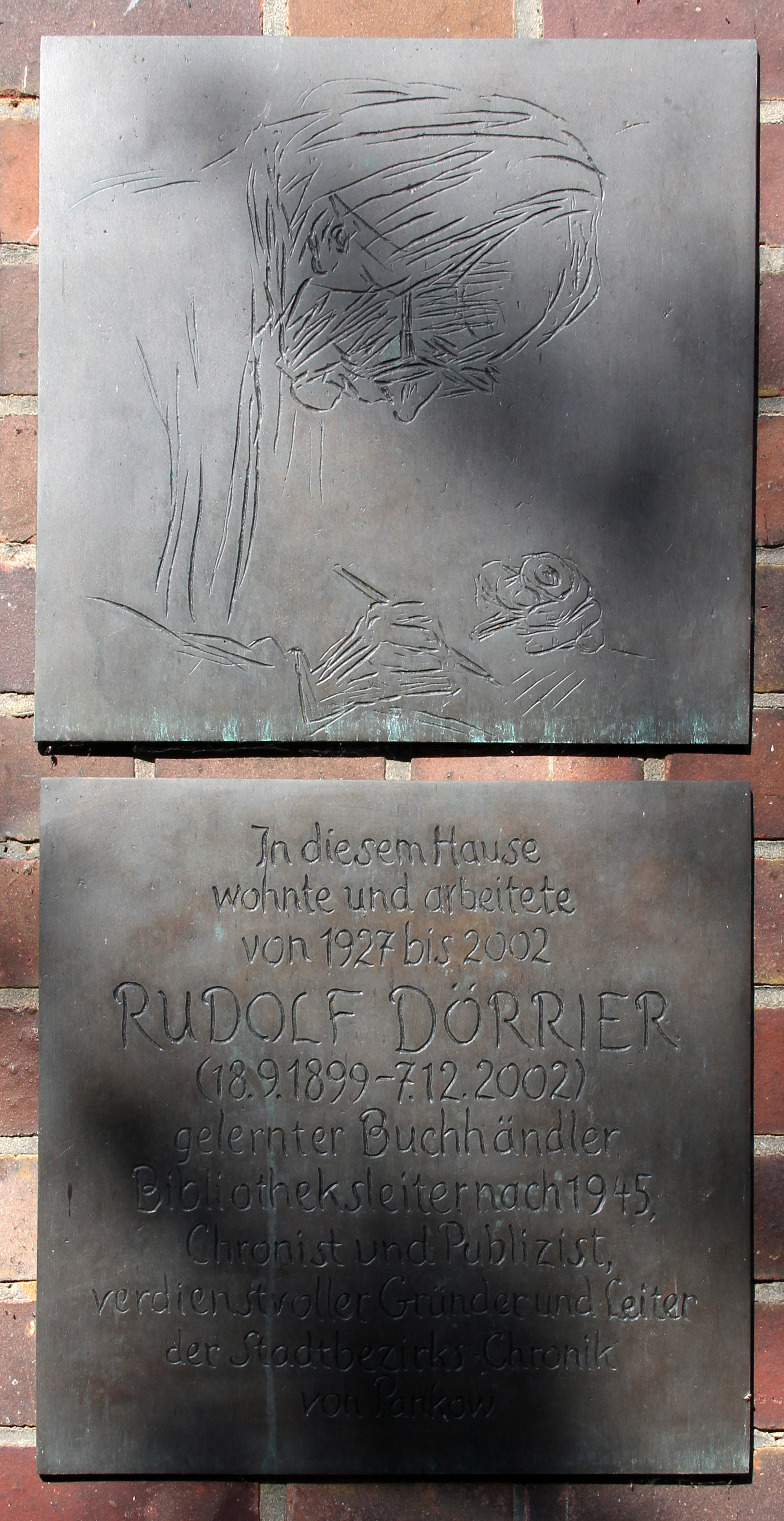 Memorial plaque, Rudolf Dörrier, Hiddenseestraße 2, Berlin-Pankow, Germany